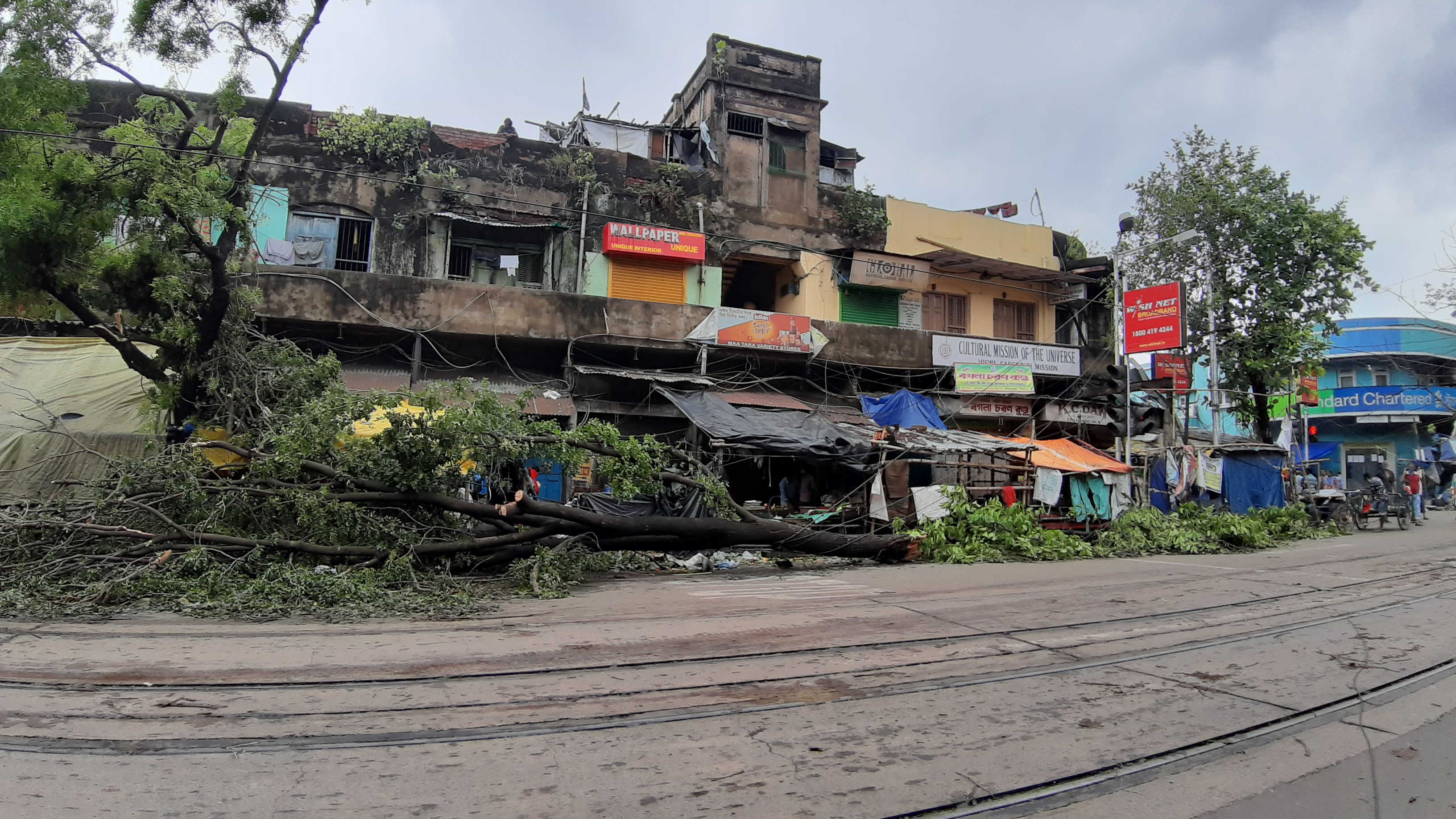 Situation of Kolkata after Amphan Cyclone, damaged houses and trees, May 21, 2020.